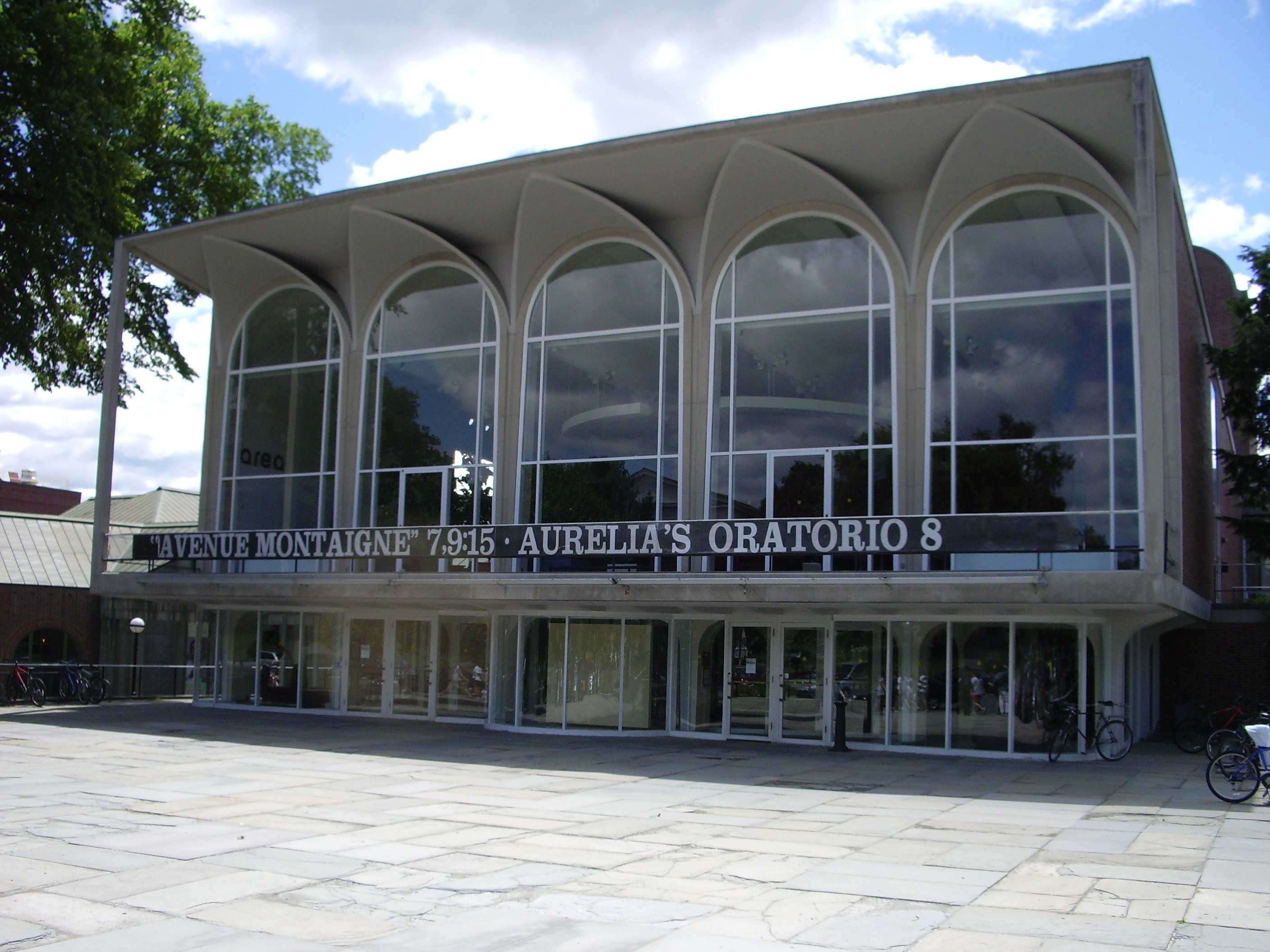 Photograph of the Hopkins Center for the Arts at the campus of Dartmouth College in Hanover, New Hampshire.